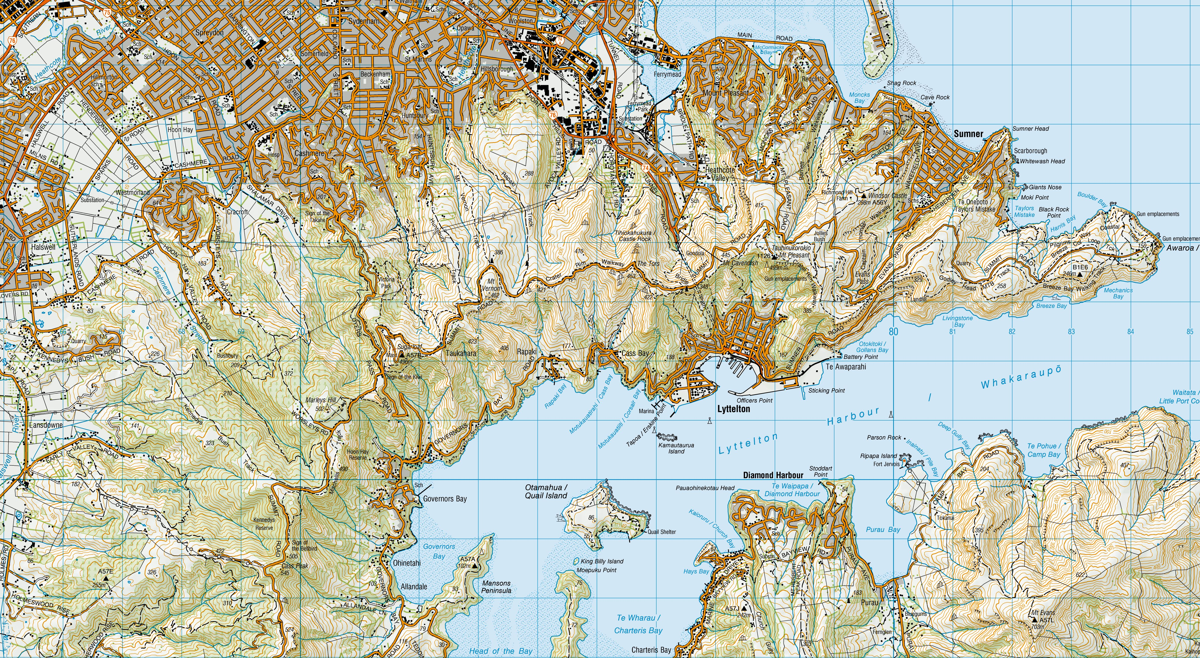 Topomap of the Port Hills, Christchurch, NZ